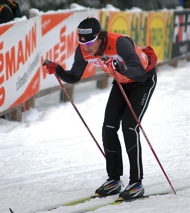 Alex Harvey at the Tour de Ski 2010 in Oberhof